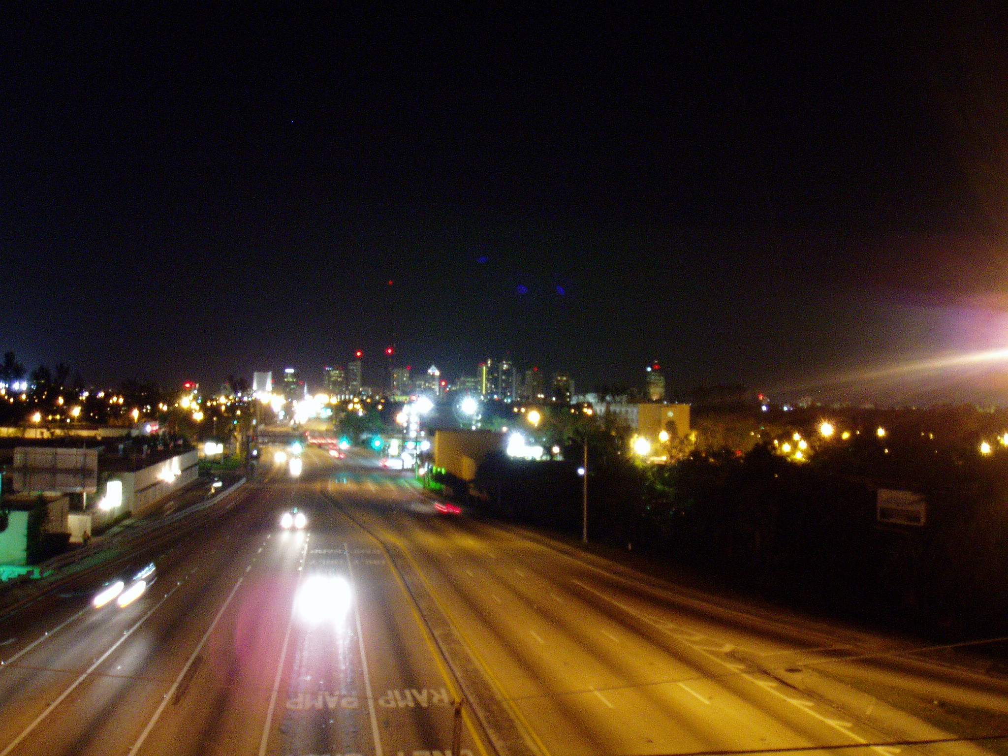 View of downtown Fort Lauderdale from Interstate 95 at Broward Boulevard. Taken by Cary Bass. Taken from on ramp from Eastbound Broward to Northbound I-95, at 26.1218 N, 80.168 W., on January 30, 2006.